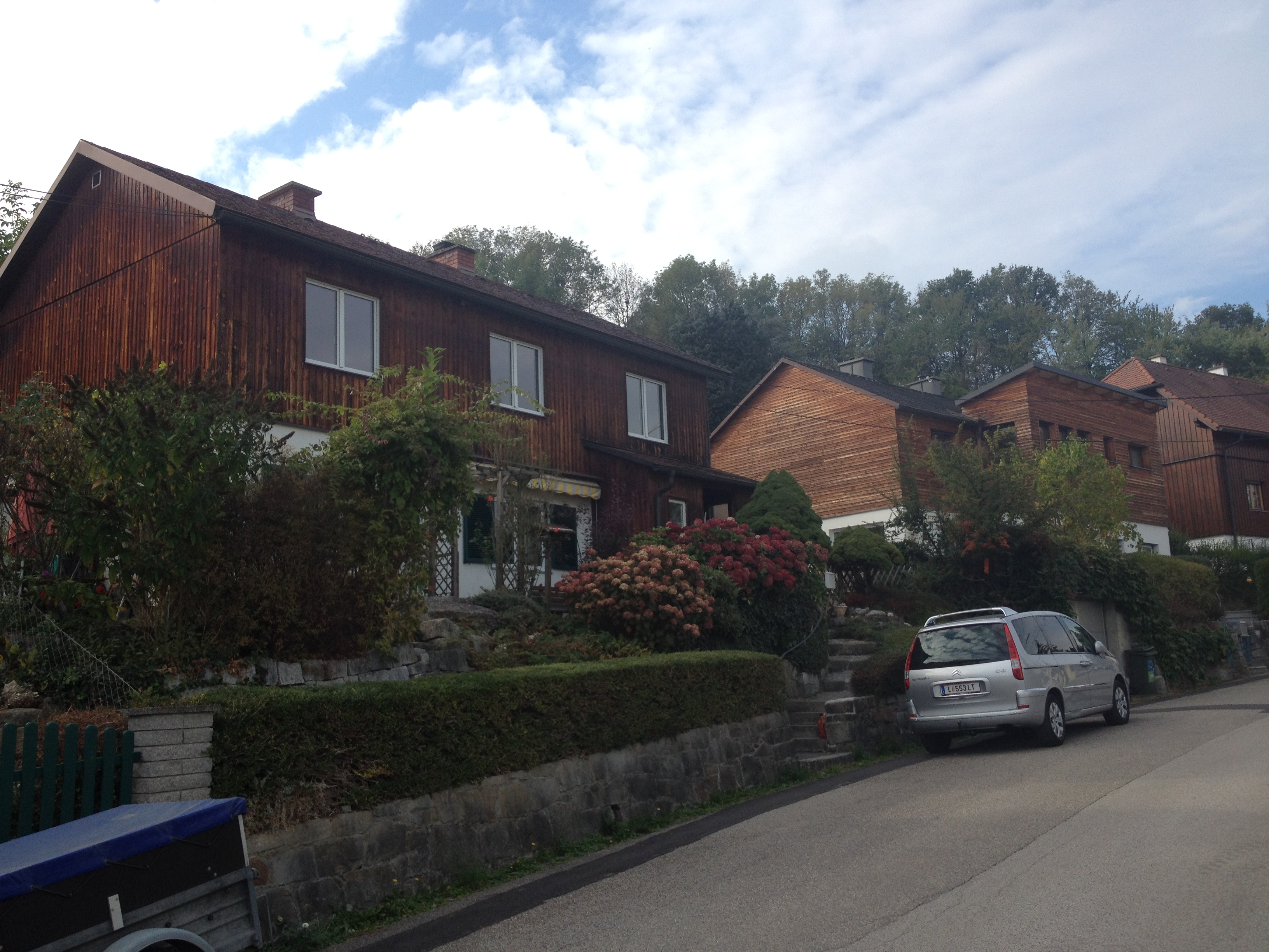 houses in Stockholmweg